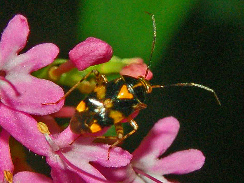 Liocoris tripustulatus. Genova, Italy